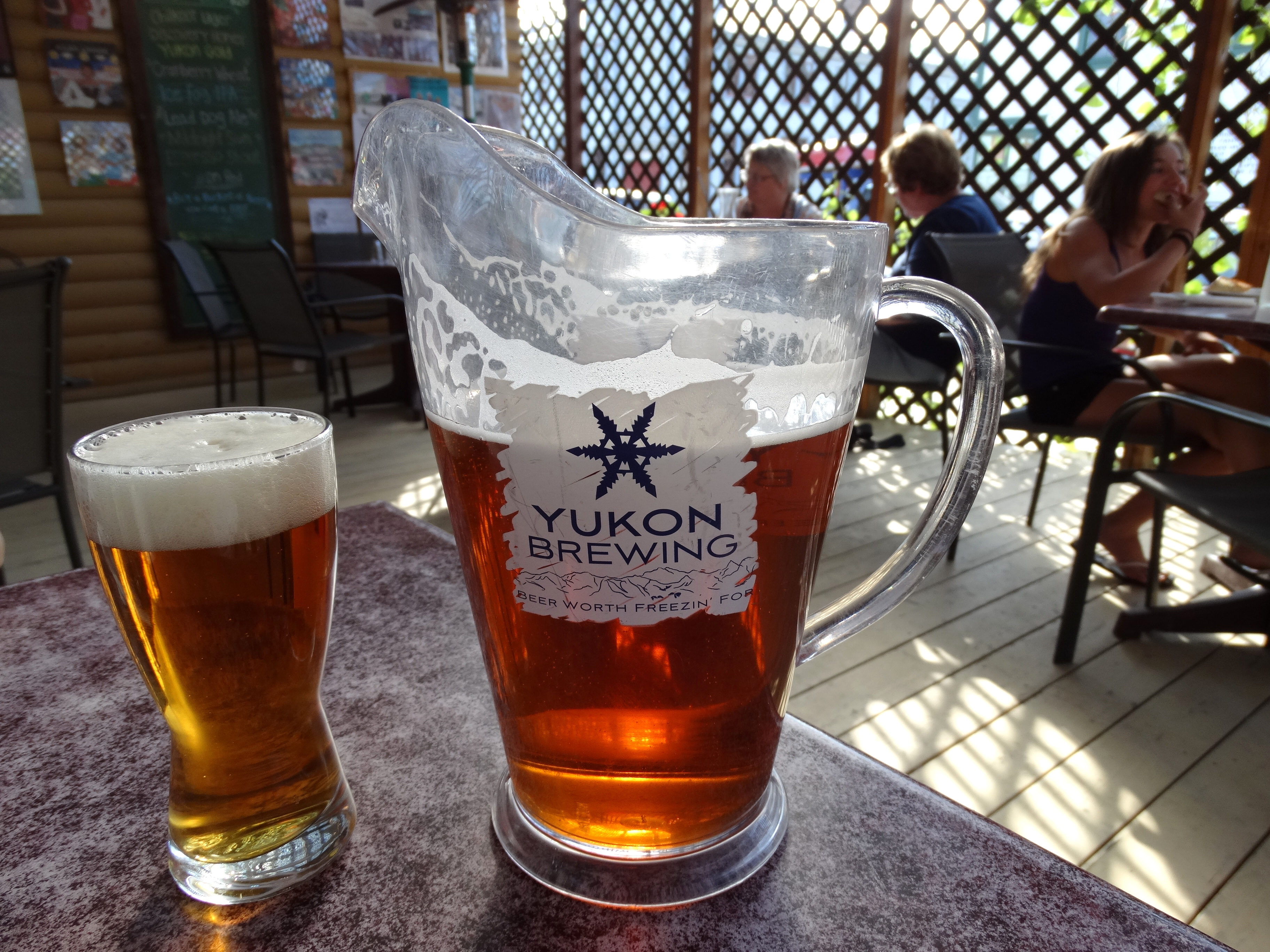 Pitcher and Glass of Yukon Gold Beer - Klondike Kate's - Dawson City - Yukon Territory - Canada